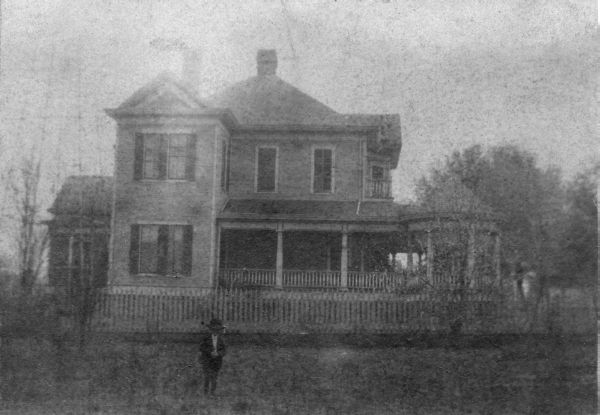 Pearce house in Alachua, Florida photographed around 1898.